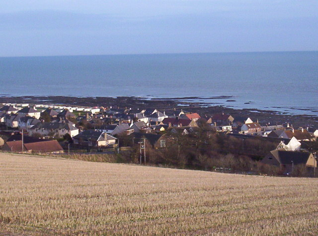 Johnshaven, Aberdeenshire, view from the A92 road